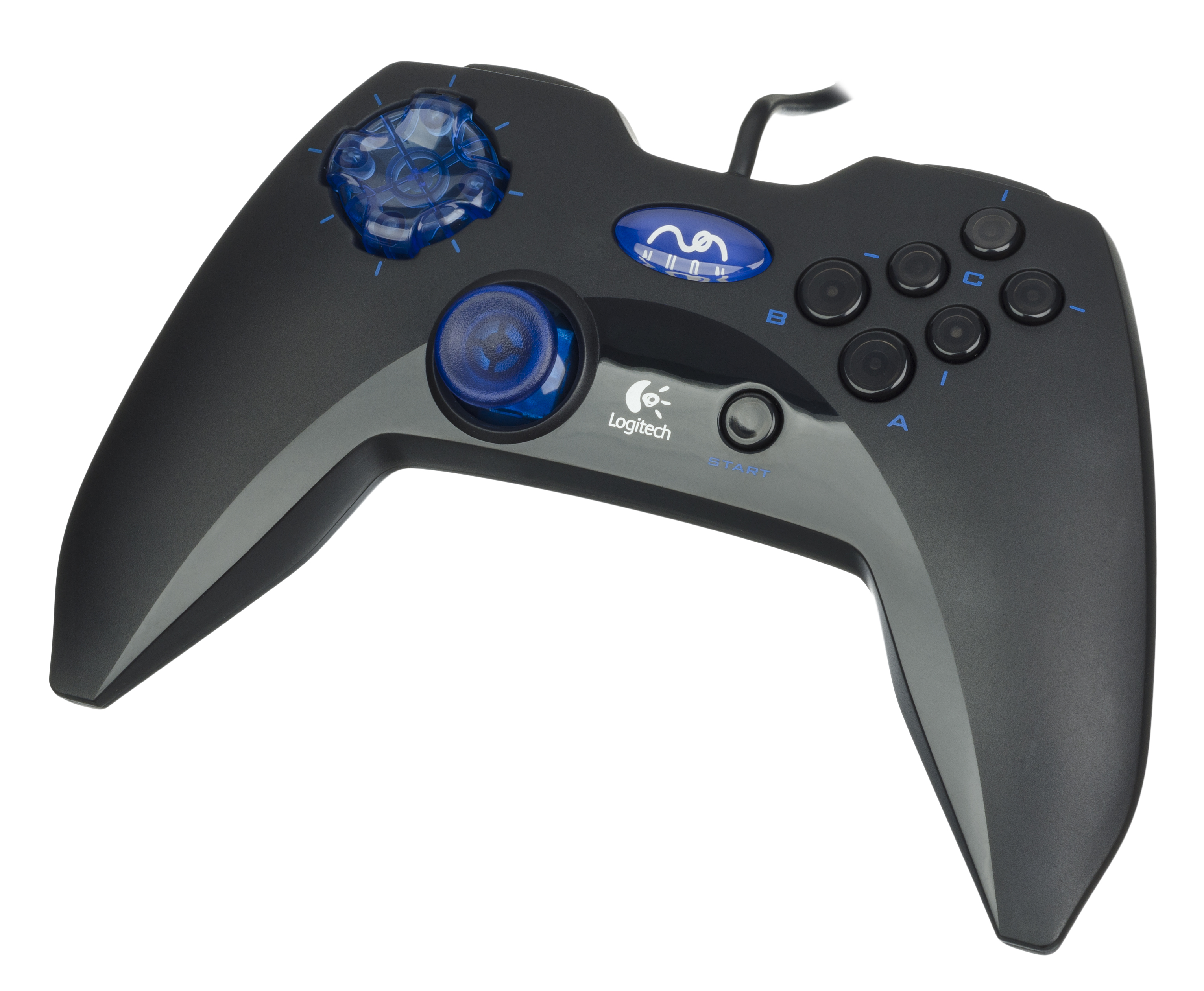 A Logitech-brand controller for the Nuon gaming system. The Nuon combined an enhanced DVD player with 3D gaming, but had a very limited library and was not on the market for long. Most Nuon/DVD players lacked pack-in controllers, making third party controllers more viable for playing games on the system.